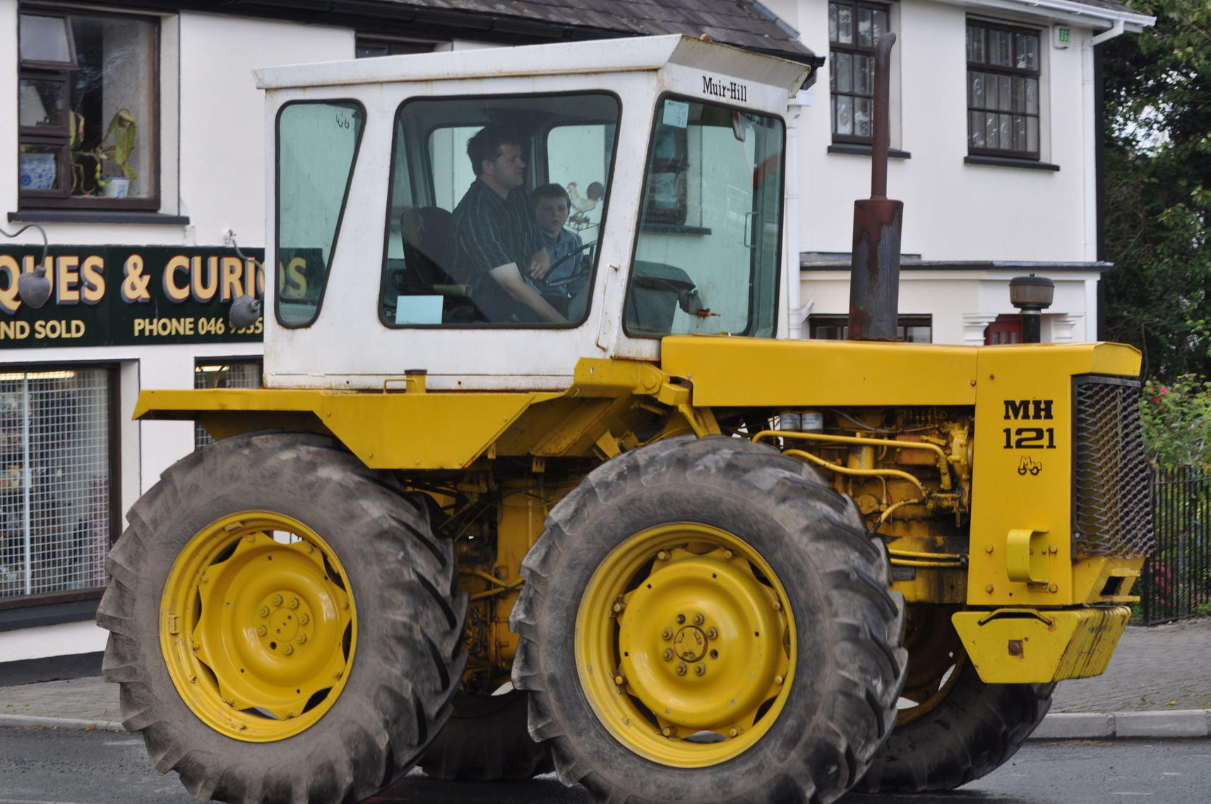 A Muir-Hill MH 121 tractor at the 1st Annual Edward Cosgrave Tractor Run in Aid of REHAB - Sunday 21st August 2011. This was taken at the event held in Longwood, Co. Meath. This picture shows the return to the village from Saint Oliver's Road. See this on Facebook at [1]. – If you are interested in the full resolution of any photograph(s), with no watermark or polaroid effect, I can email it to you FREE OF CHARGE. Email address is petermooney78 AT gmail DOT com. The easiest way to do this is to open the picture in Flickr and copy the link at the top of the browser into your email. If you would like to use any of the photographs on your Facebook, LinkedIn, Twitter, Foursquare, account etc - please link back to the original photogaph on Flickr or attribute the source. All my photographs are available here under a Attribution-ShareAlike 2.0 Generic (CC BY-SA 2.0) license. This just means that all you have to do is just link back or state where the photographs came from. This is the only "cost" of the images.